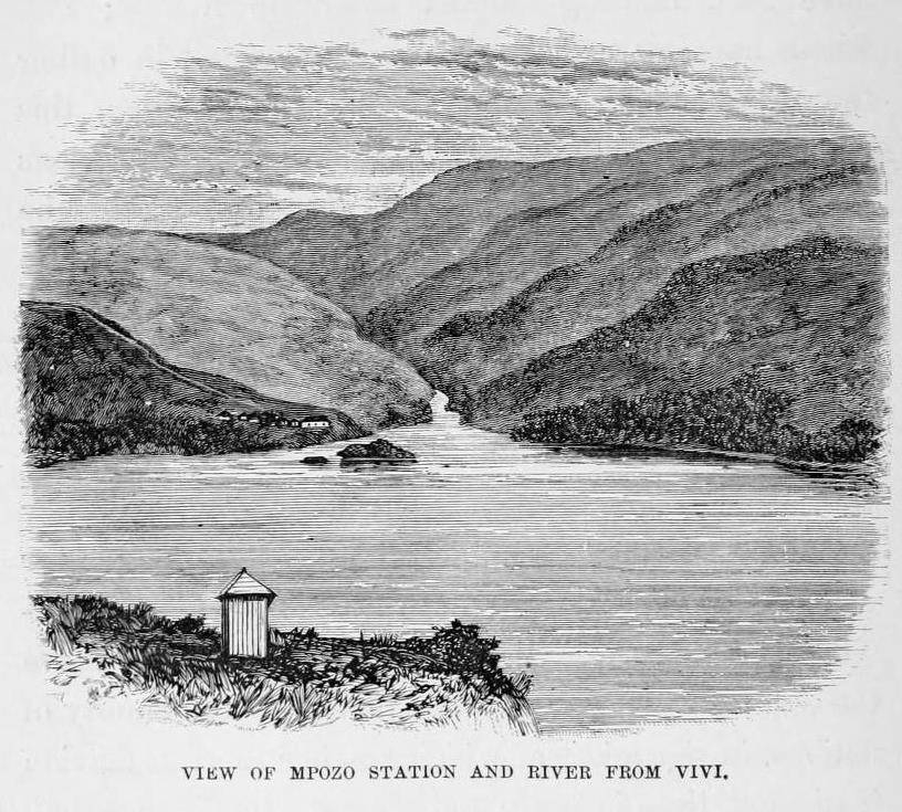 Pictures excerpted from HM Stanley's book "The Congo and the founding of its free state; a story of work and exploration (1885)"